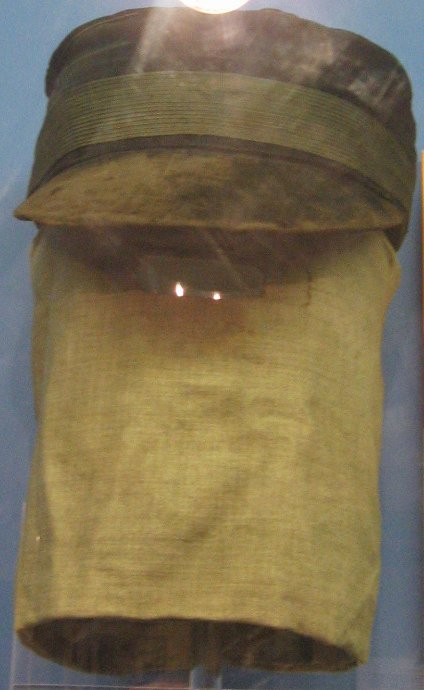 Cap and hood of Joseph Merrick, presented in the Royal London Hospital Museum.